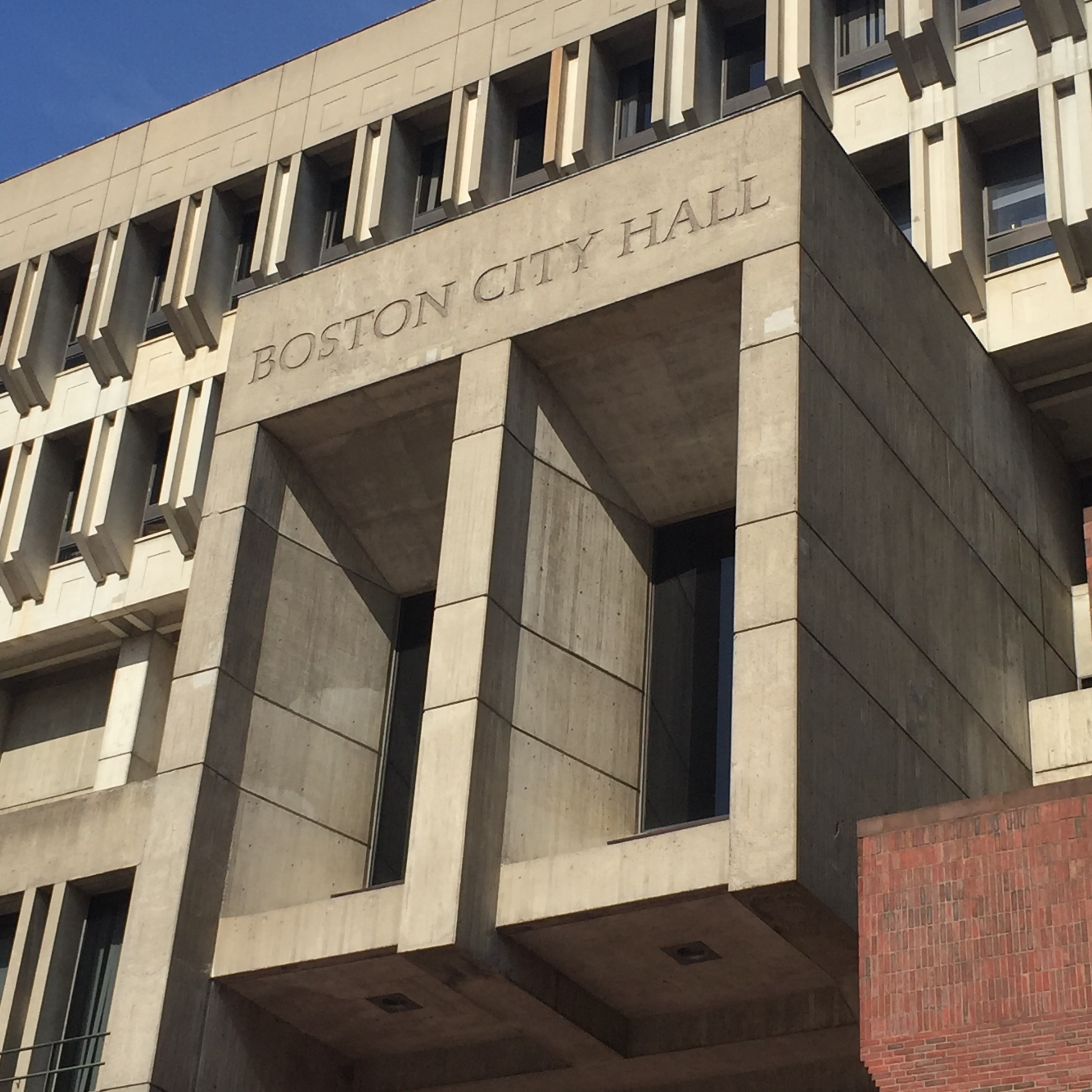 Caption of building title engraved near Government Center station entrance of Boston City Hall on July 25, 2020.